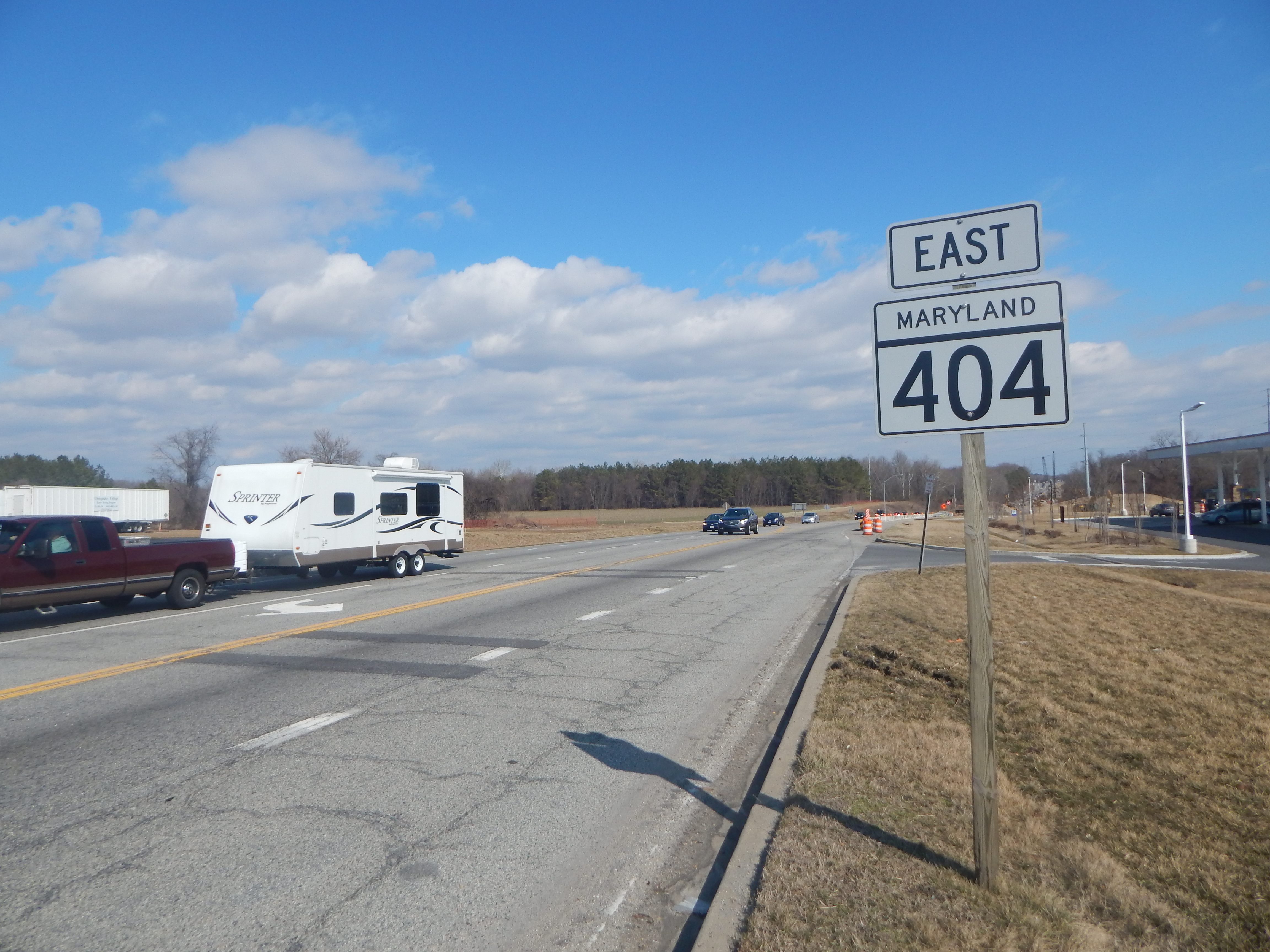 Maryland Route 404 eastbound in Queen Anne, Maryland.